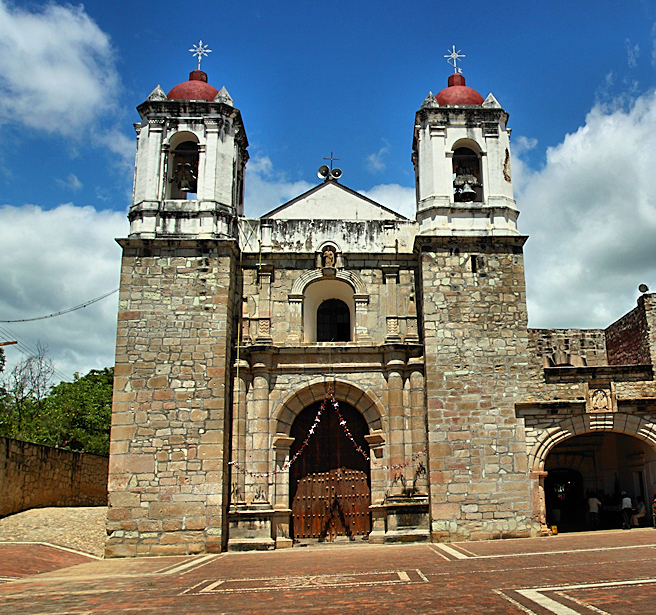 Iglesia at San Pablo Huitzo, Oaxaca, Mexico